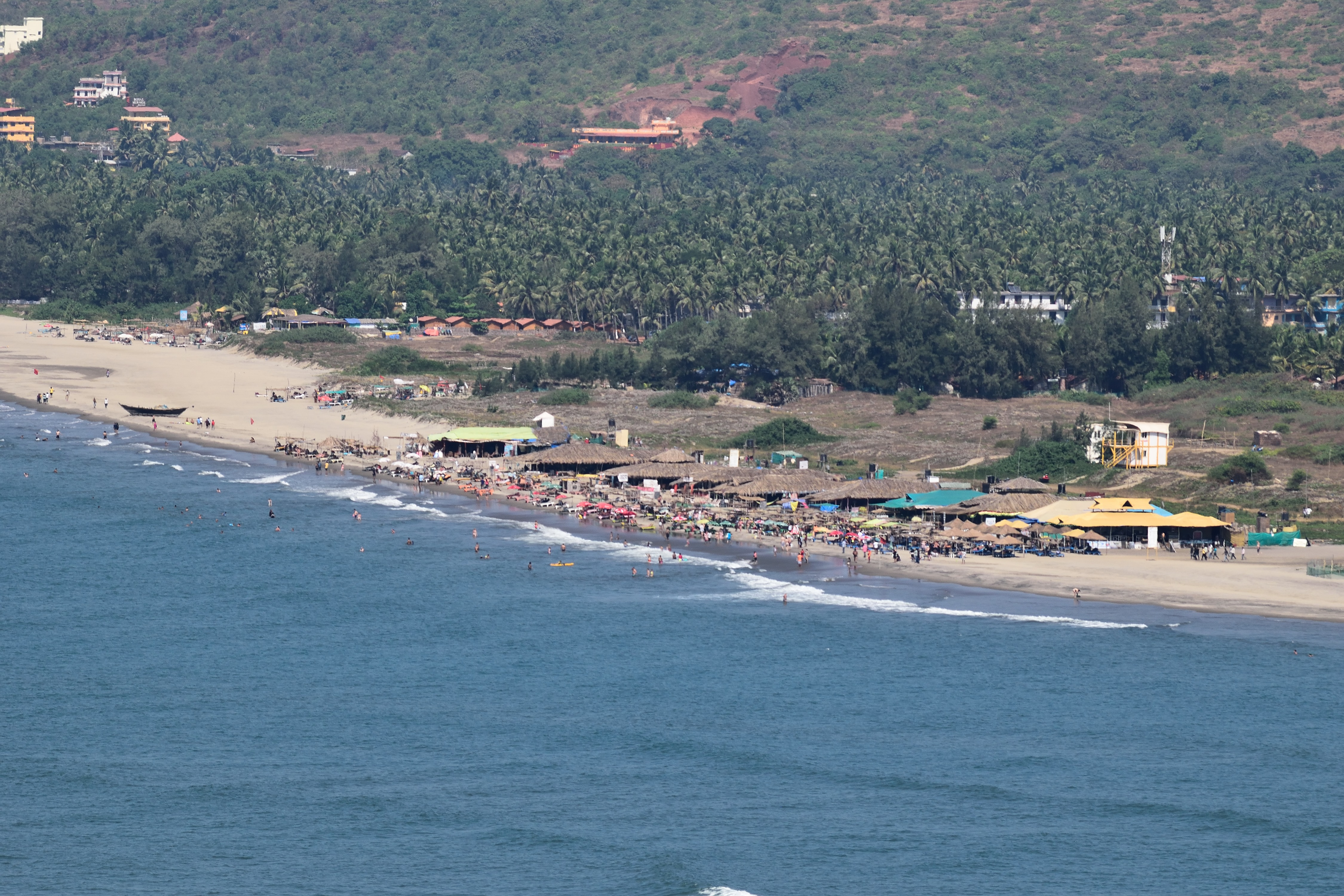 Morjhim Beach as seen from Fort Chapora